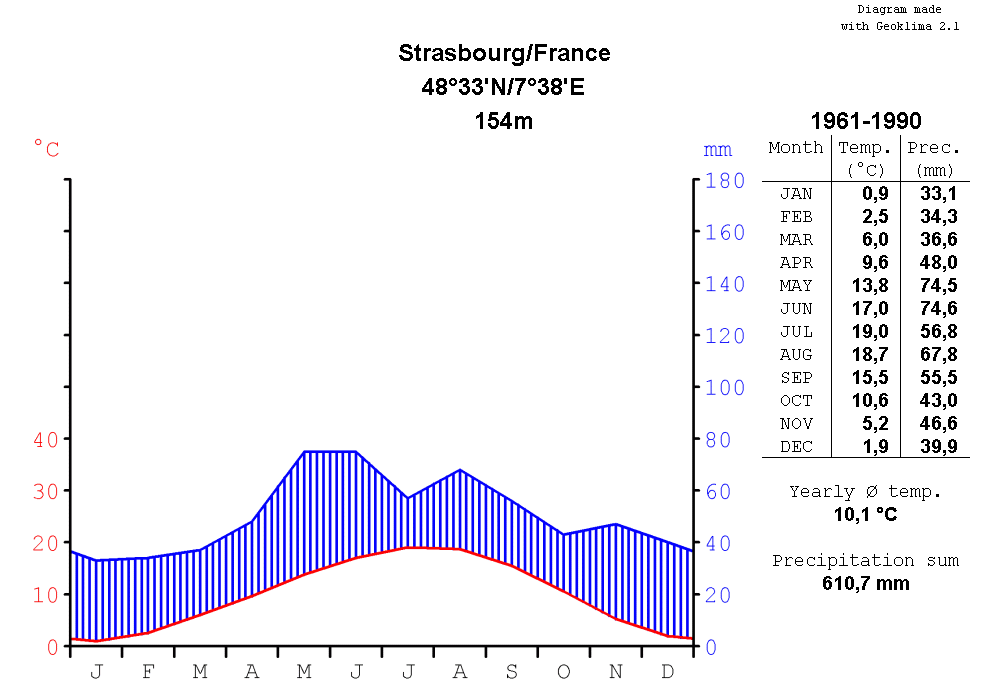 climate chart of Strasbourg, France, for the period of time from 1961 to 1990, in the format by Walter and Lieth, metric, °Celsius and millimeters, chart made with Geoklima 2.1, label in English